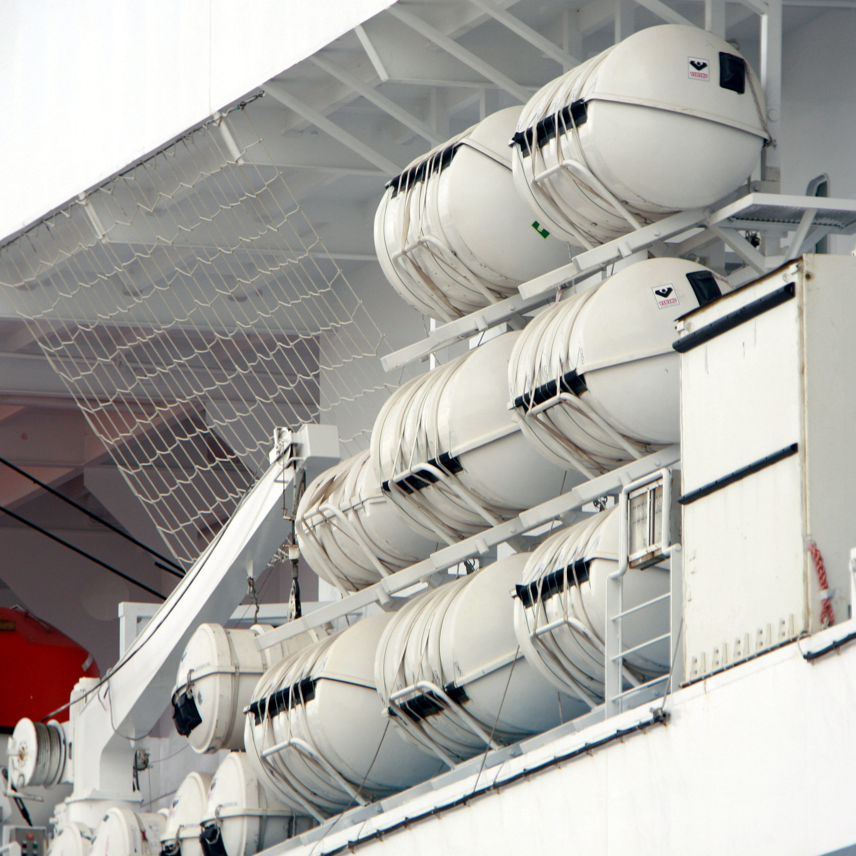 Life raft